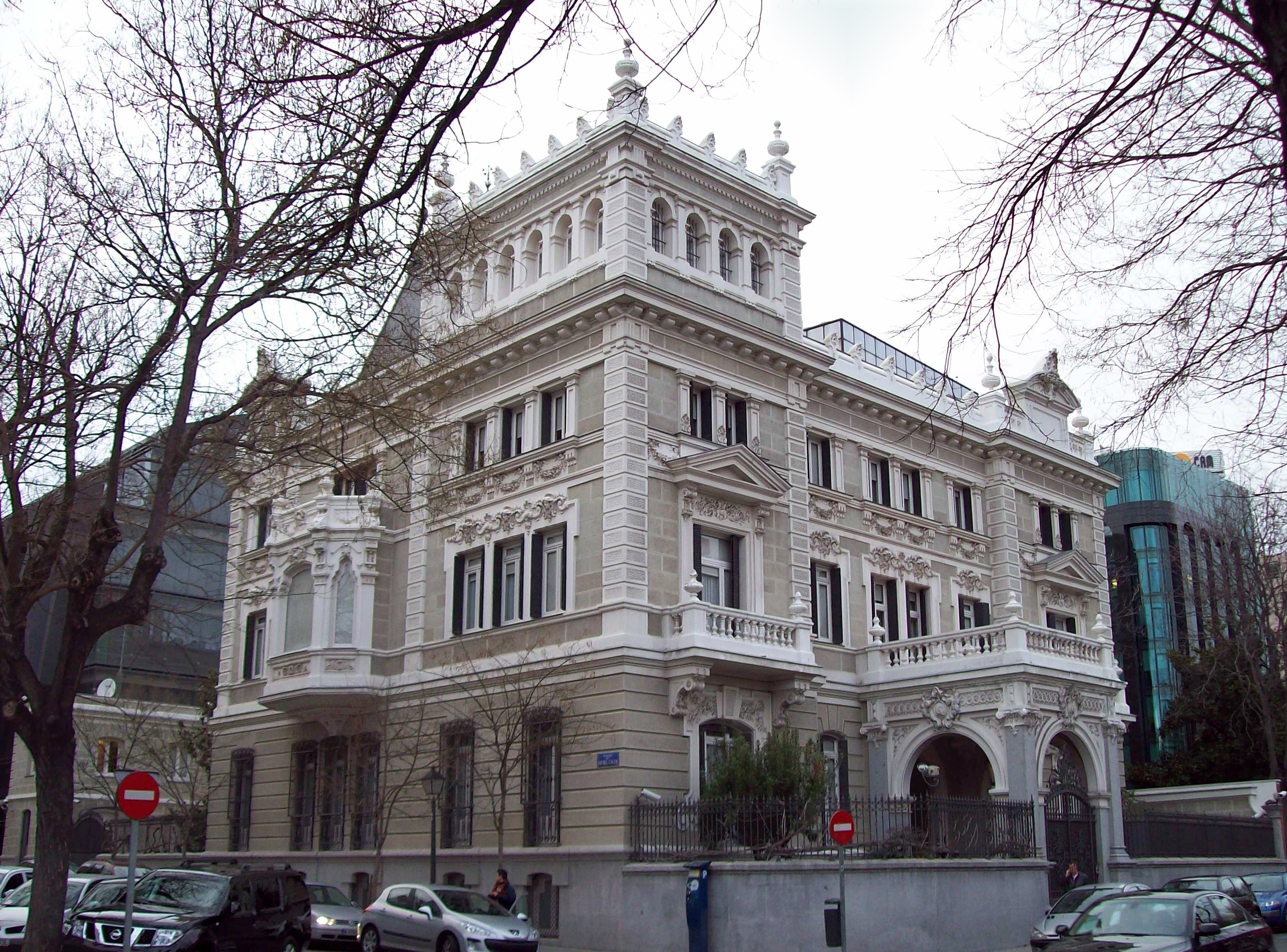 View, from the south-east angle, of Palacete de Eduardo Adcoch, a building at 37 Paseo de la Castellana (an avenue) in Chamberí district in Madrid (Spain).